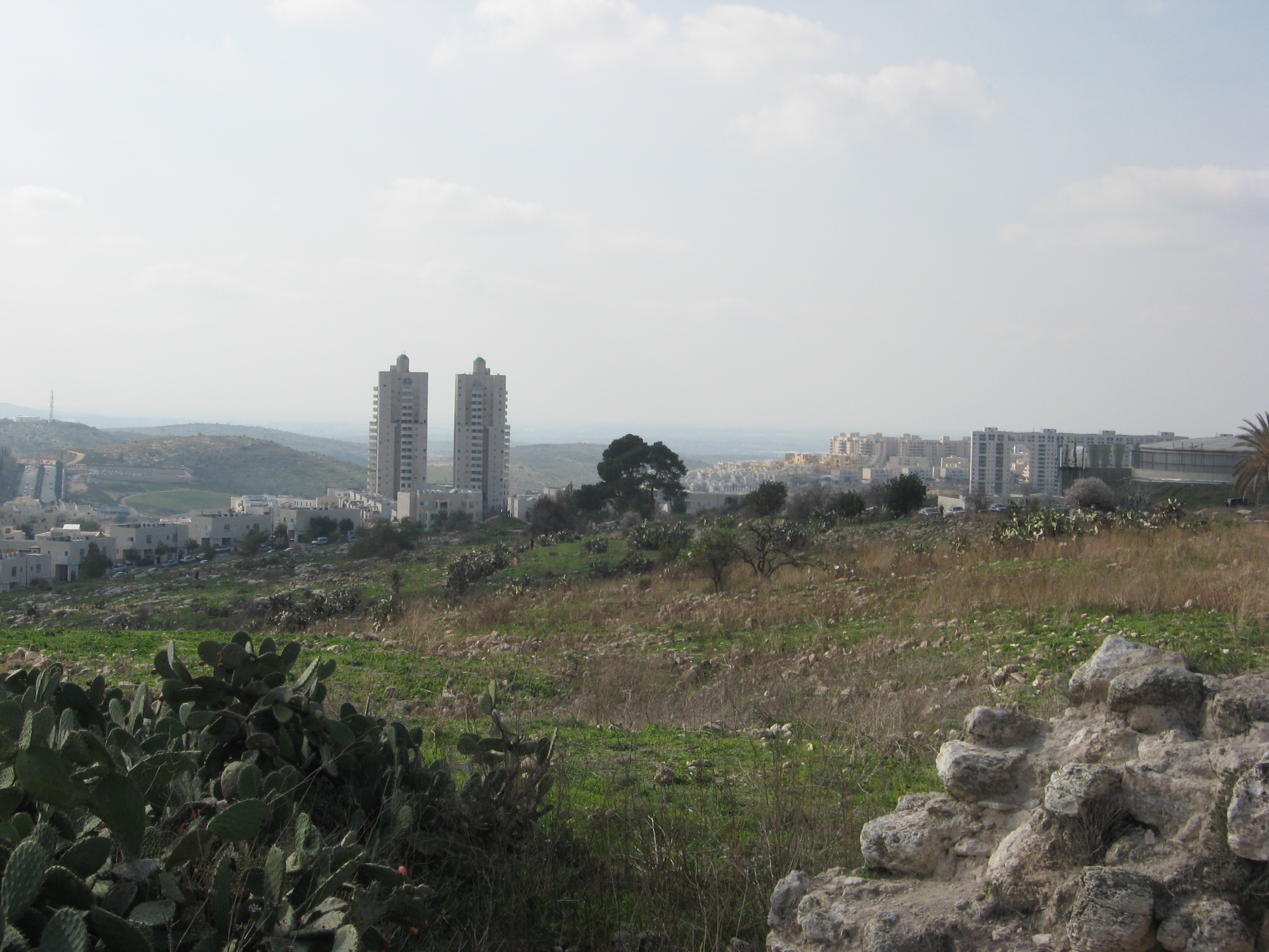 The citi Modi'in, Settlements in Israel